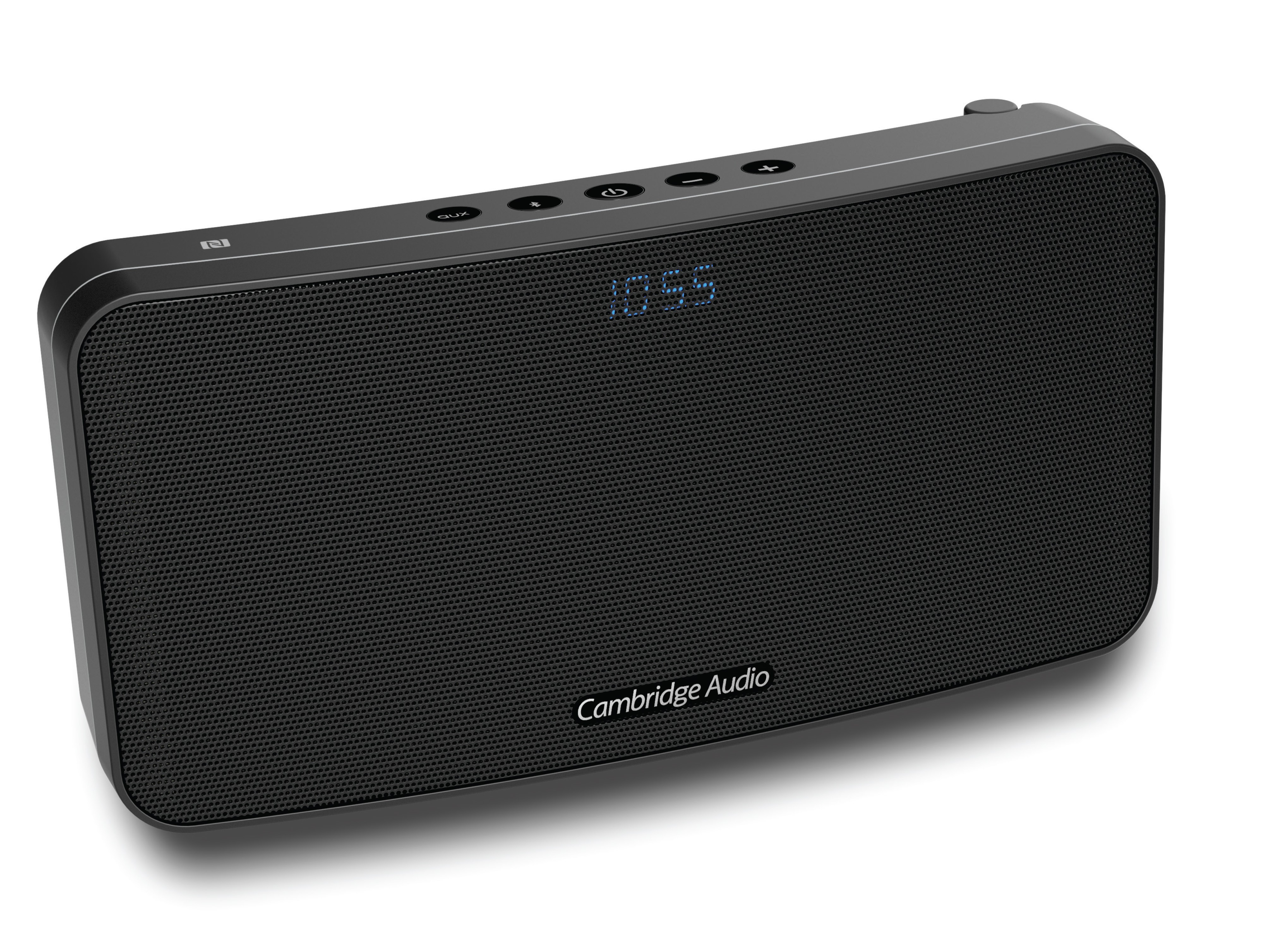 Cambridge Audio Minx Go Wireless Speaker